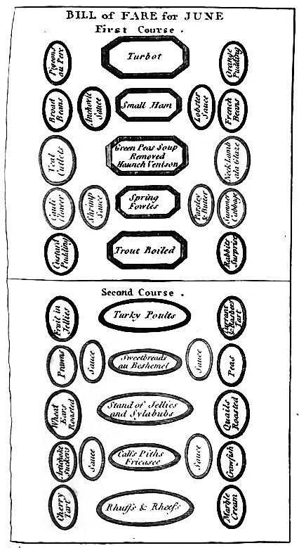 Bill of Fare for June from The English Art of Cookery by Richard Briggs, 1788